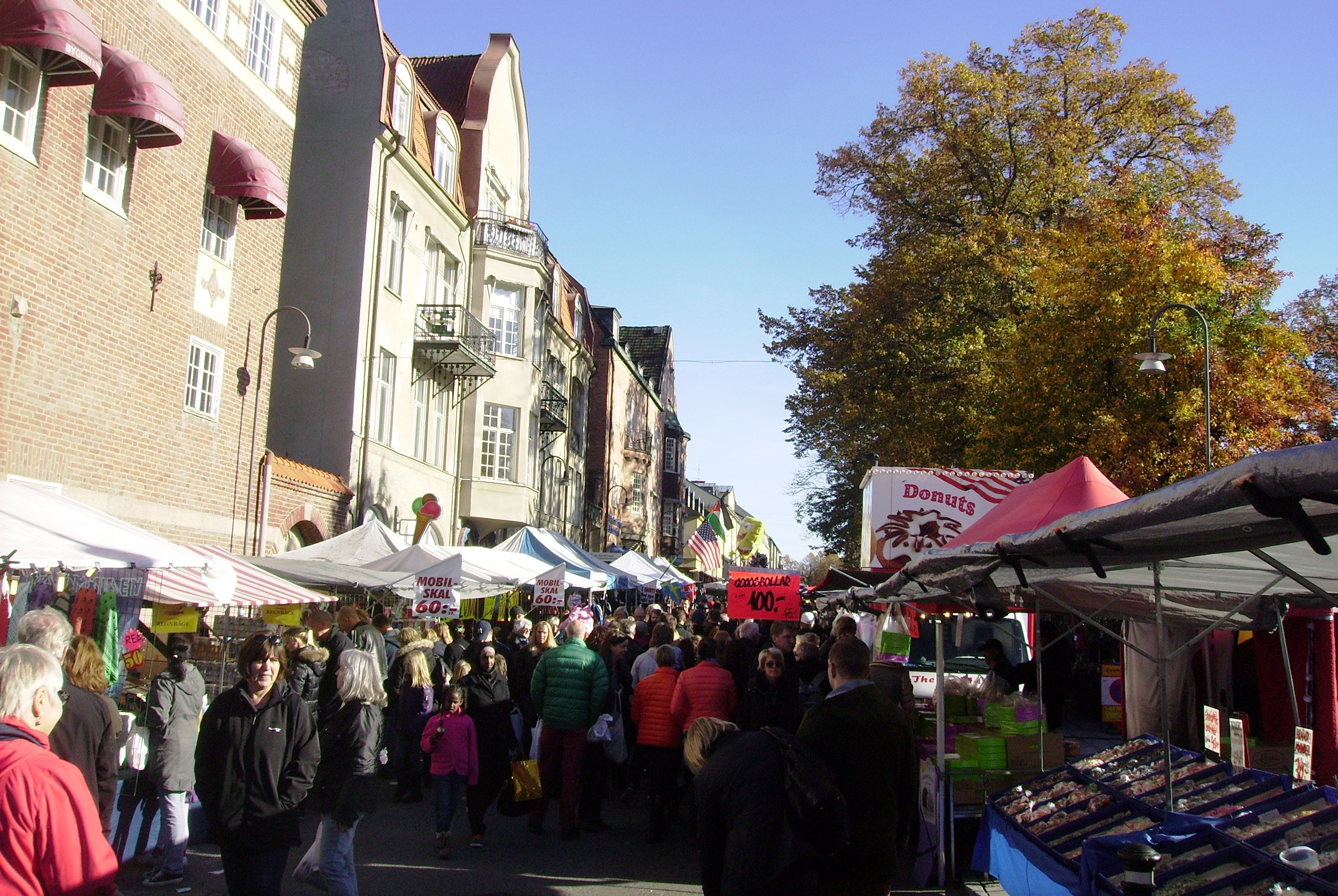 PENTAX Image